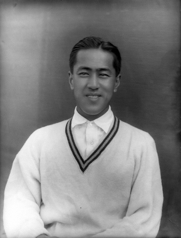 Japanese tennis player Ryuki Miki by Bassano, whole-plate glass negative, 28 May 1929